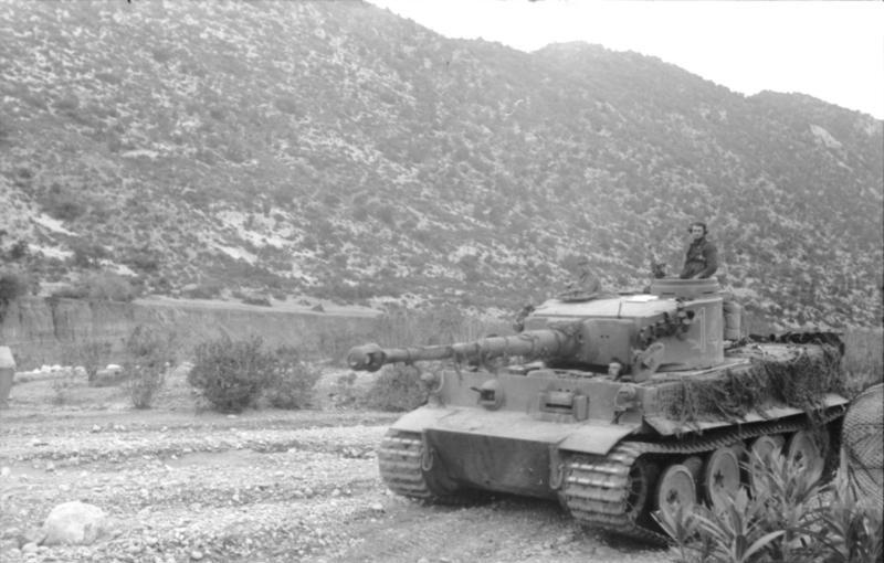 Information added by Wikimedia users.Schwere Panzer-Abteilung 504 (Size and style of number on turret, located in Tunisia)[1]